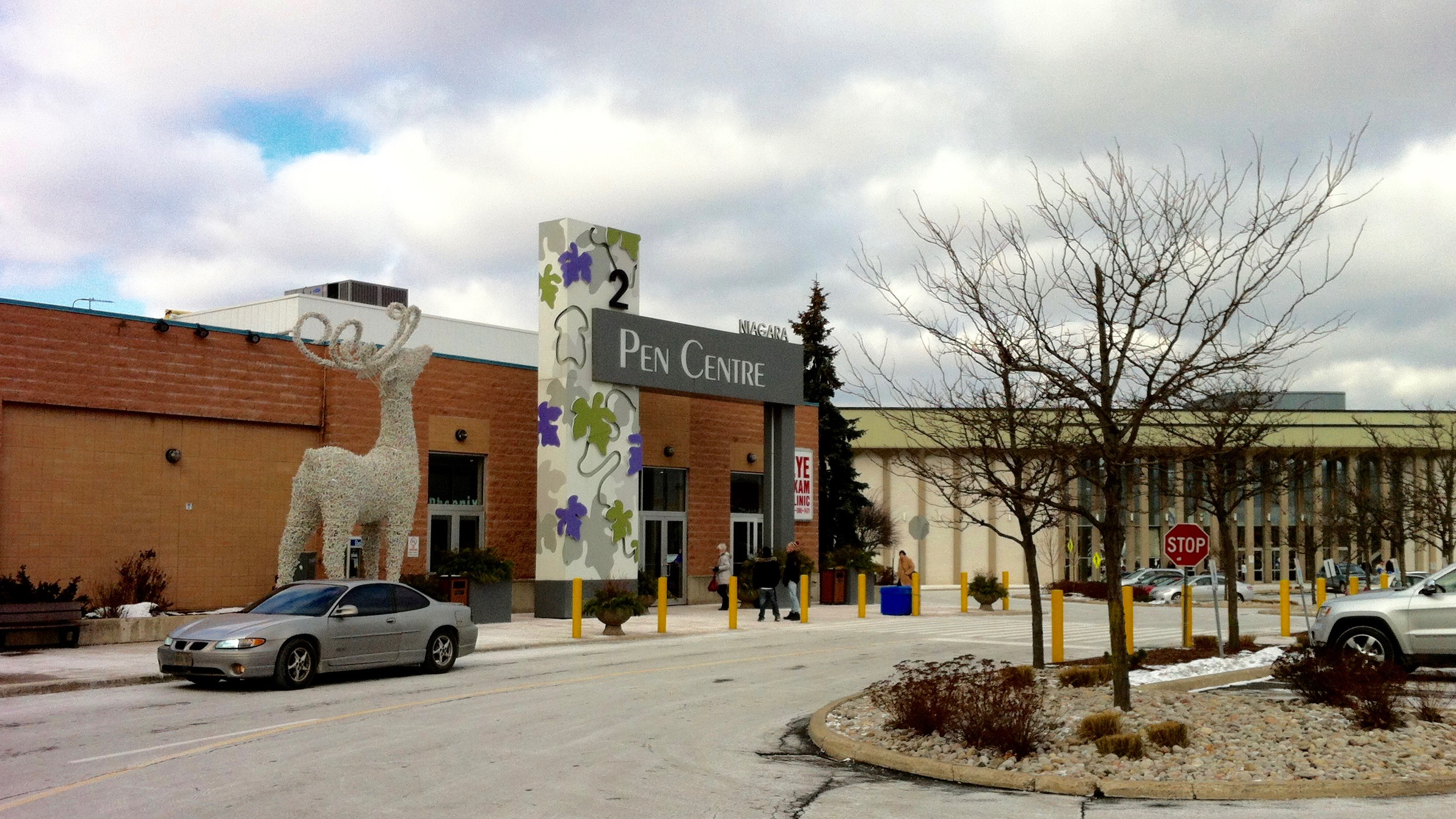 One entrance to the Pen Centre in St. Catharines, Ontario, seen from the east parking lot